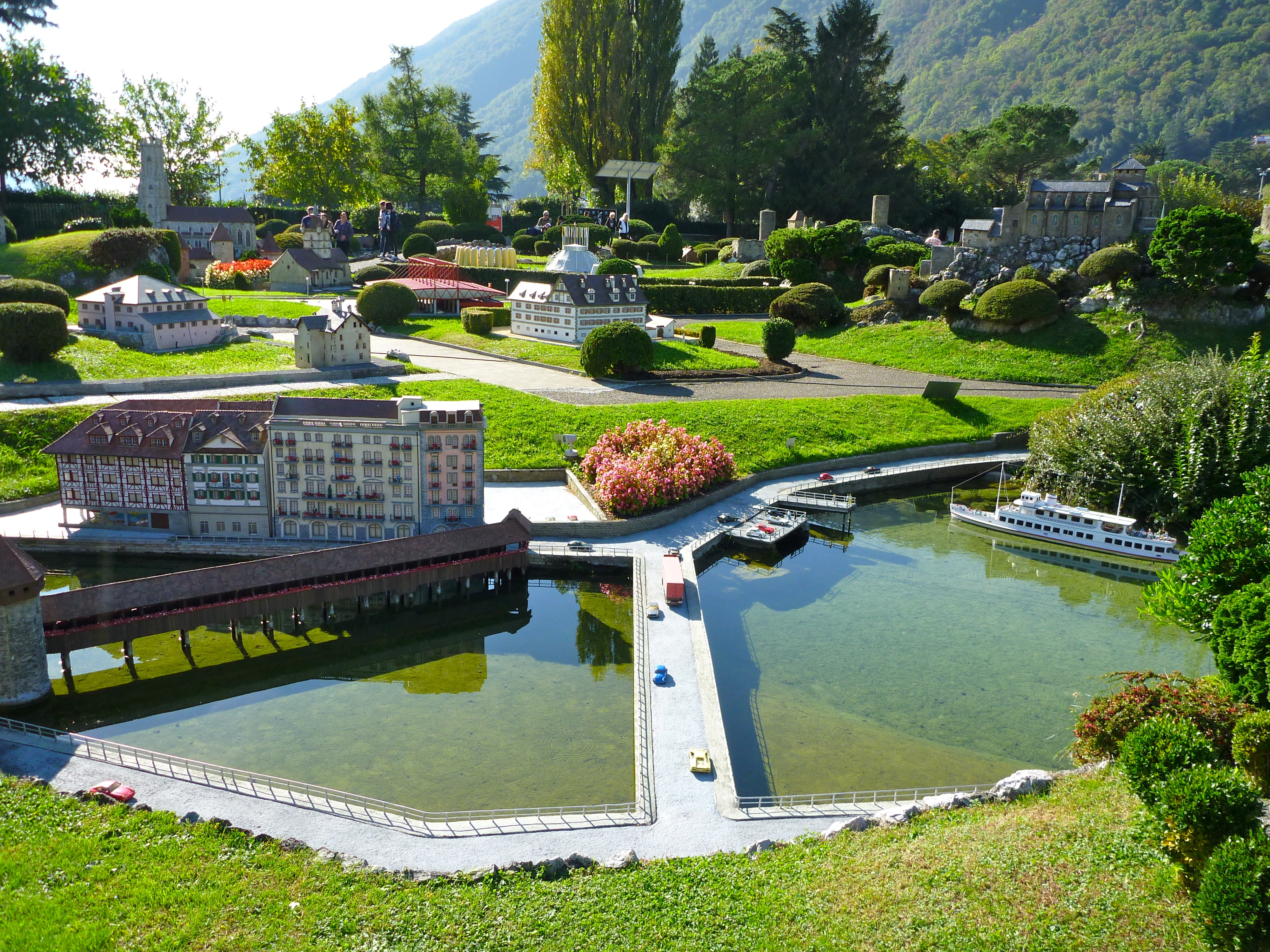 Overwiew of Swissminiatur